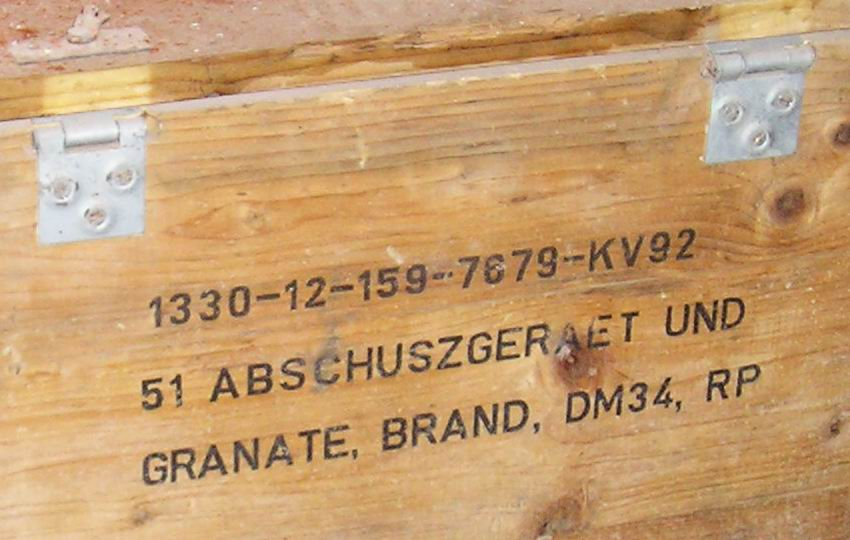 Wooden ammunition box of the Bundeswehr for "Handflammpatronen" (one-shot flamethrowers), "ß" written as "SZ"